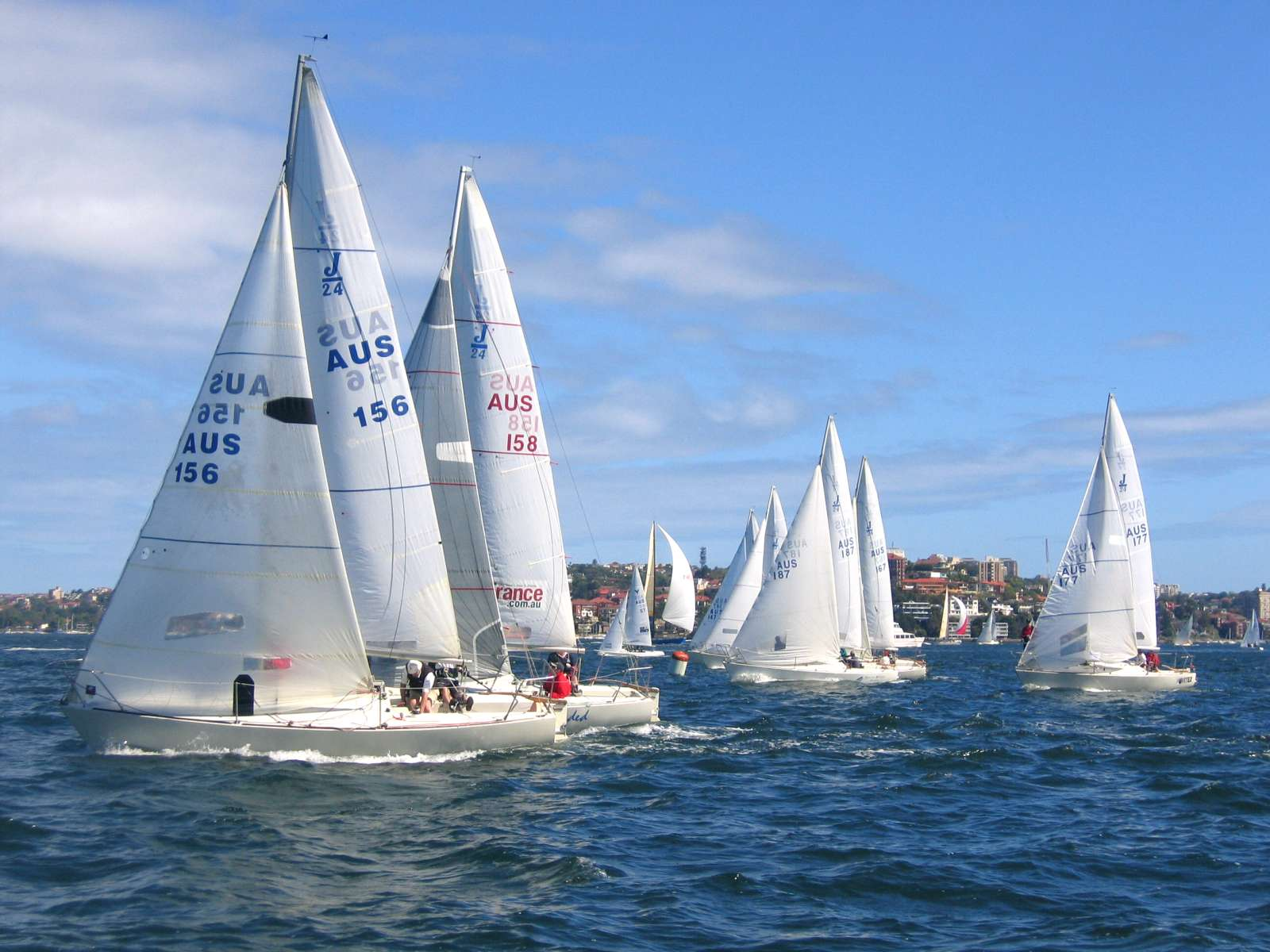 J-24 yacht racing, Sydney Harbour, Australia